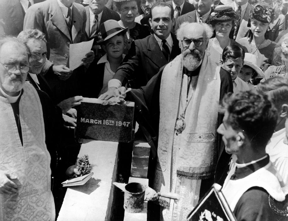 Laying of foundation stone for St.Theodore's Greek Orthodox Church, 1947 A Greek Orthodox priest applies mortar to the foundation stone of St.Theodore's Greek Orthodox Church in Townsville on 16 March, 1947. (Description supplied with photograph).